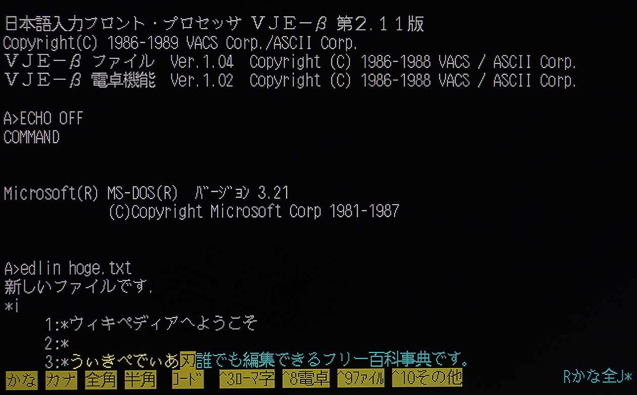 Screenshot of EDLIN typing Japanese text with VJE-β input method, runnning in MS-DOS.